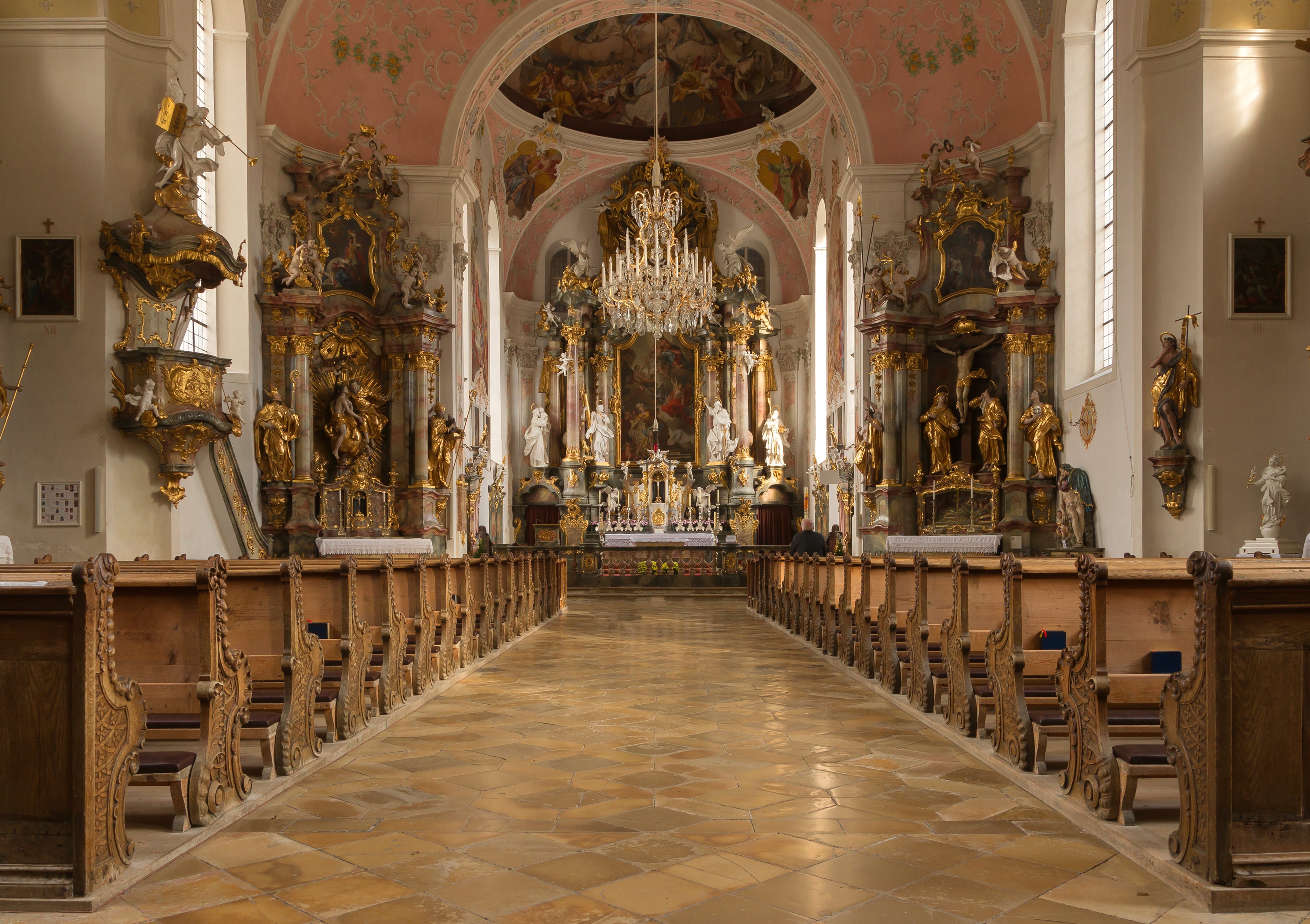 Interior of the church Saint-Peter Saint-Paul, Oberammergau, Bavaria, Germany.